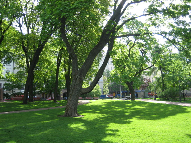 The Old Church Park in Helsinki, Finland